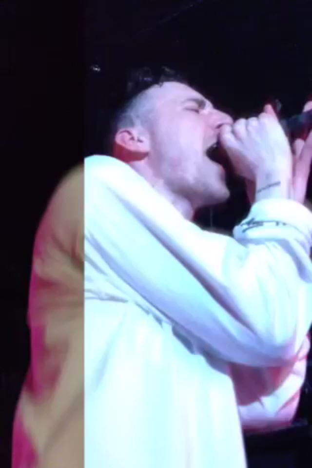 Kaya Tarsus performing with Blood Youth in The Key Club, Leeds, UK in 2017